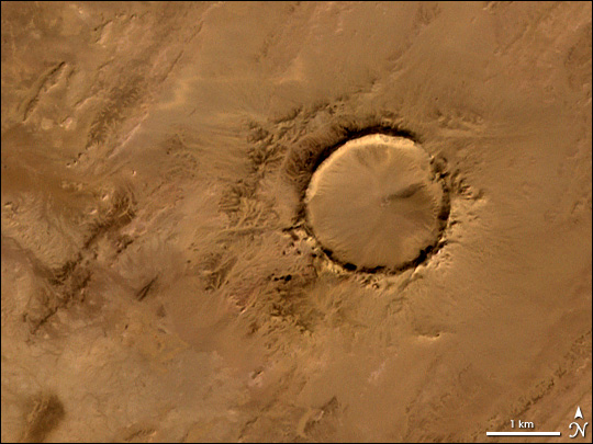 Tenoumer crater, Mauritania